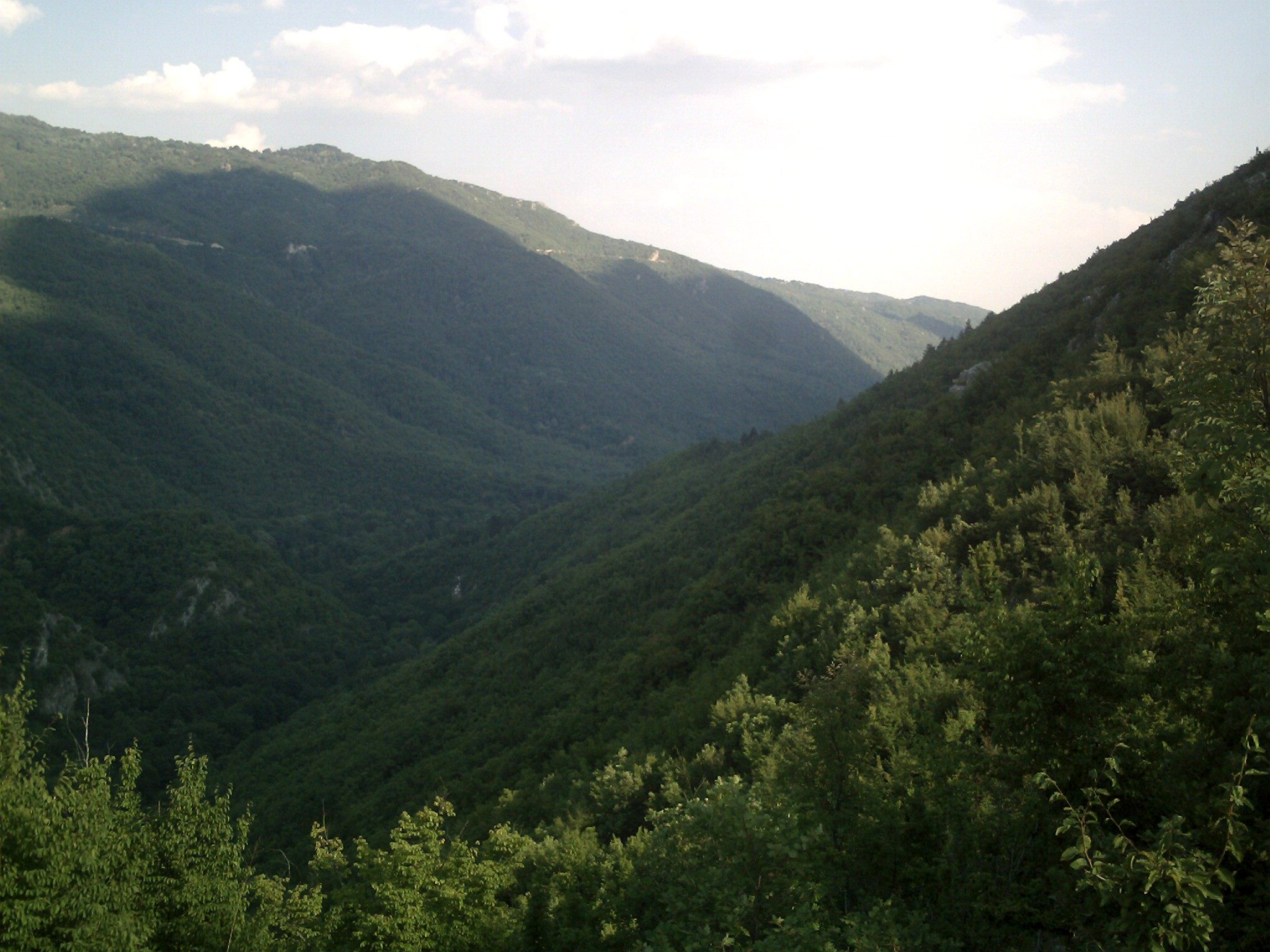 A look from the village of Tuhovishta towards the valley of the Dospat River in southern direction.